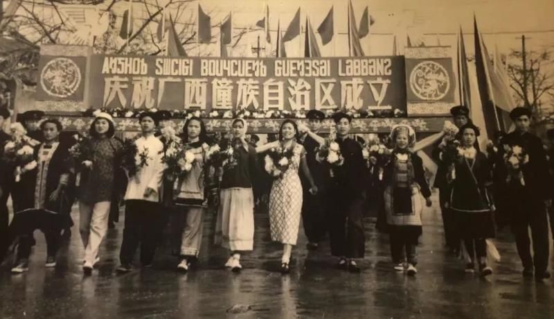 The parade of founding ceremony of Guangxi Zhuang Authnomous Region, taken on March 14, 1958. 中文（中国大陆）: 1958年3月14日，广西僮族自治区成立大会，6万多人举行游行活动，庆祝广西僮族自治区成立。